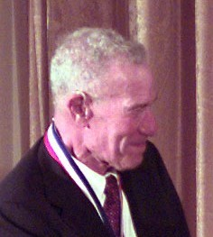 President Clinton is awarding Robert Solow the National Medal of Science